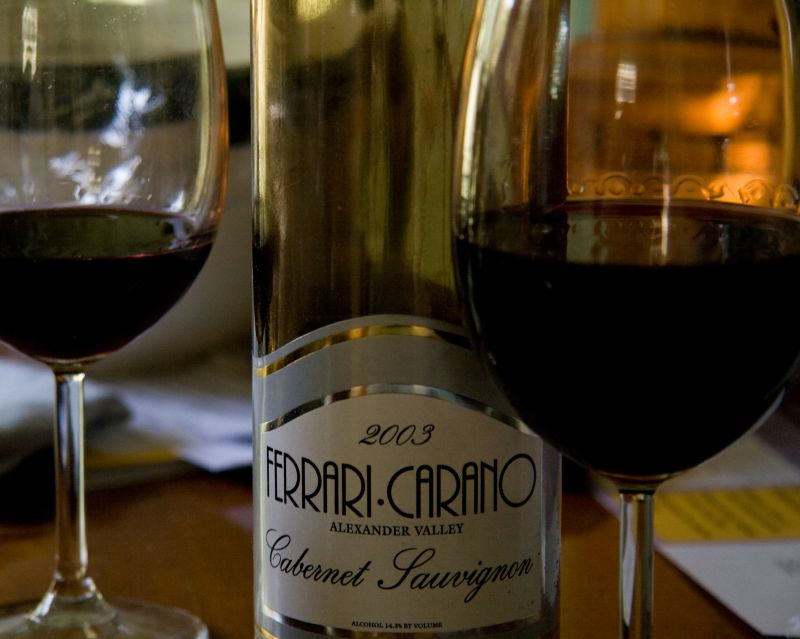 Bottle and glass photo of an Alexander Valley California Cabernet from Sonoma County.